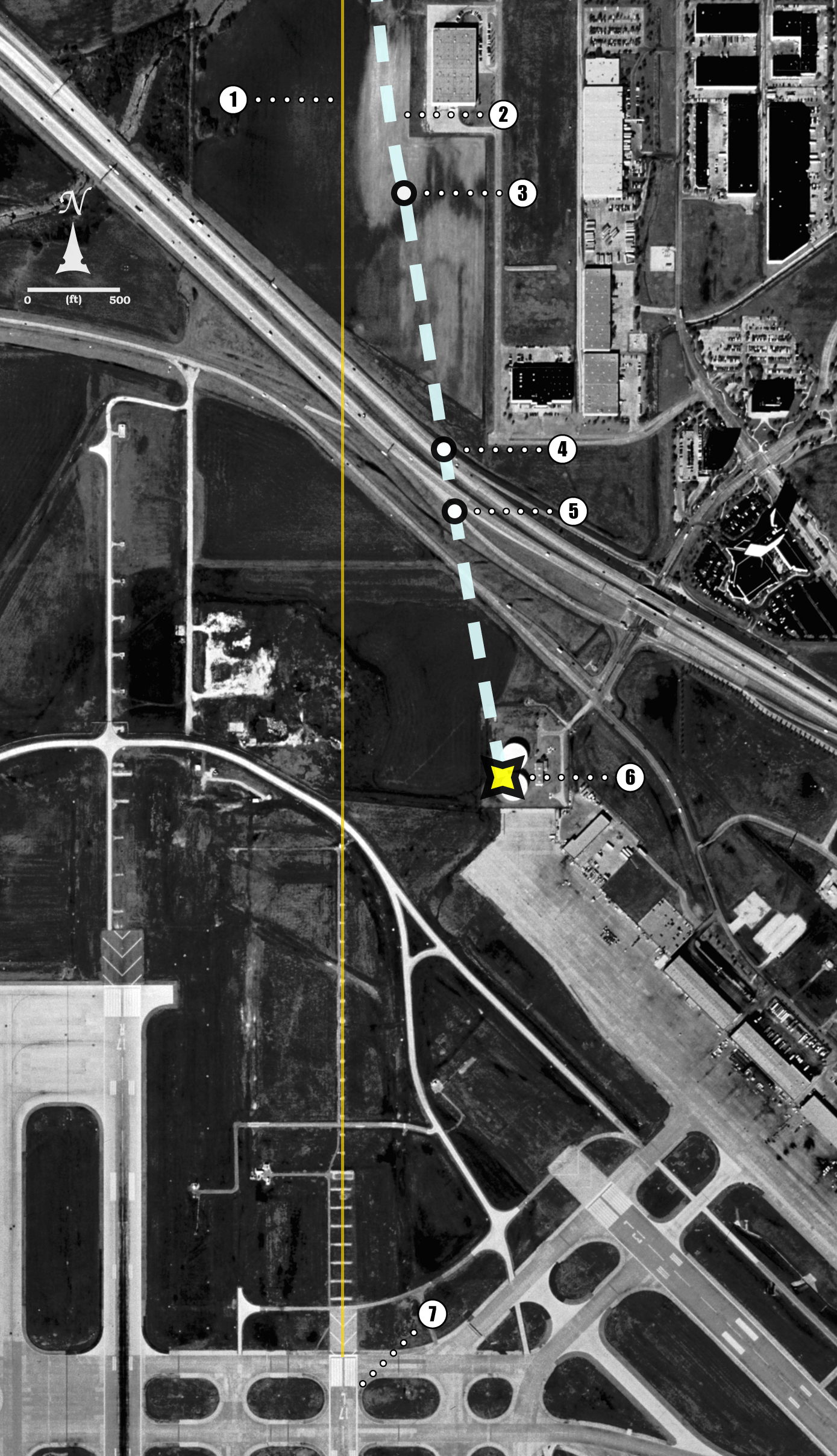 Map of the flight path in the final moments of the crash of Delta Air Lines Flight 191 (1): extended centerline (2): estimated flight path (3): point of initial impact at 18:05:52 (4): point where flight impacts a street light and kills driver William Mayberry on Texas State Highway 114 (5): point where the aircraft departs the highway, knocking down two more street lights, and begins to disintegrate (6): the water tanks where most of the fuselage is destroyed (7): the threshold of runway 17L at DFW